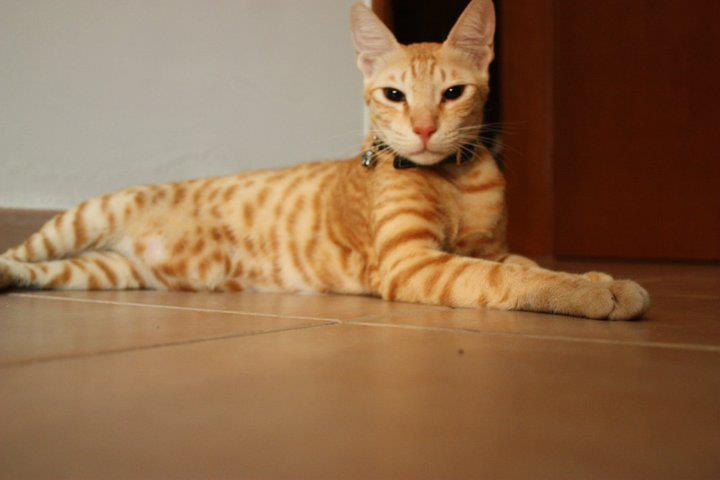 Arabian Mau cat